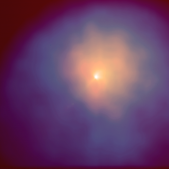 Comet Hyakutake imaged by the Hubble telescope